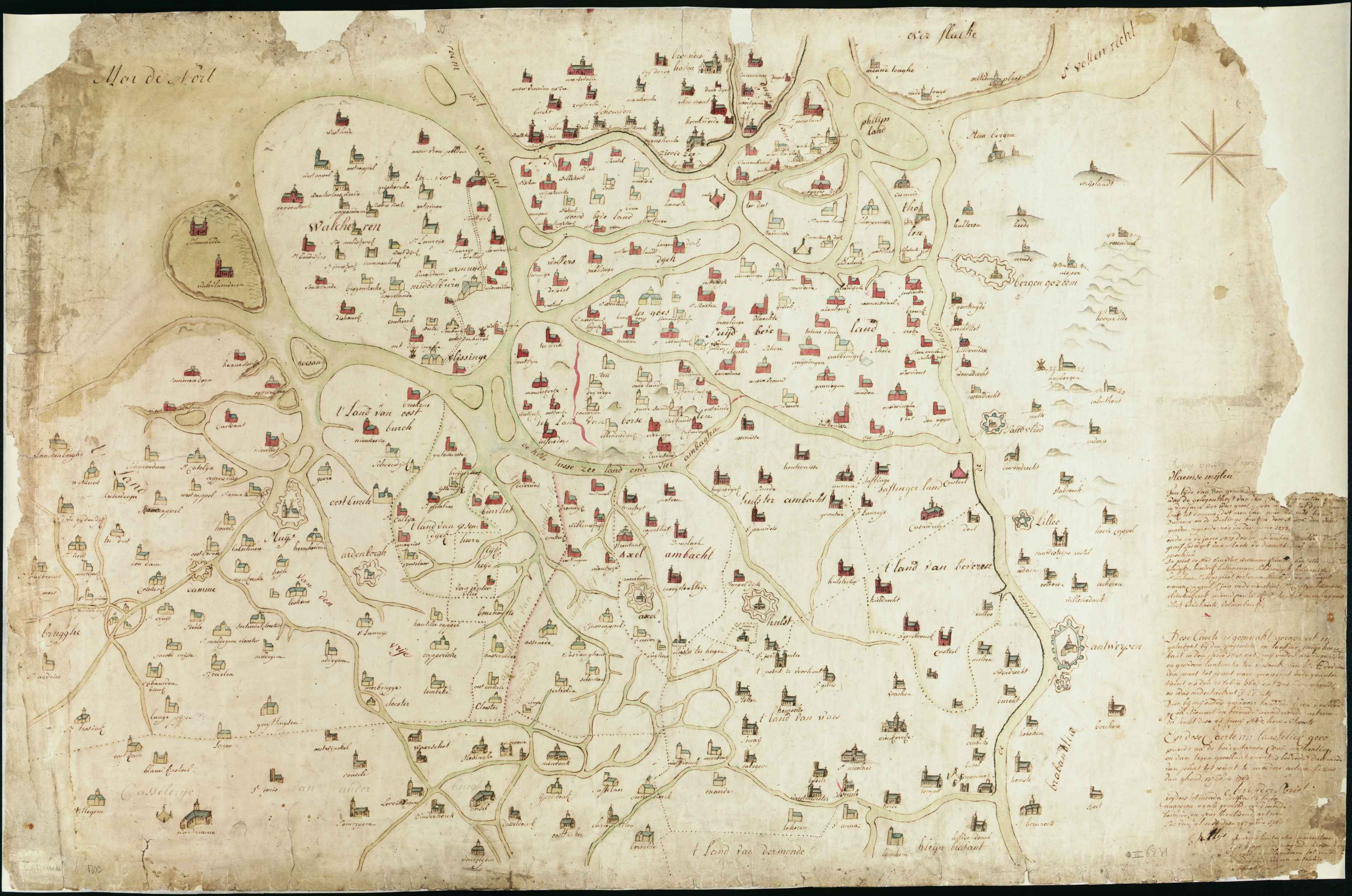 Map of the area of Zeeland and Flanders just as it was at the time of Guido van Dampier. Engraved in Flanders in the Year of Our Lord MCCLXXIV